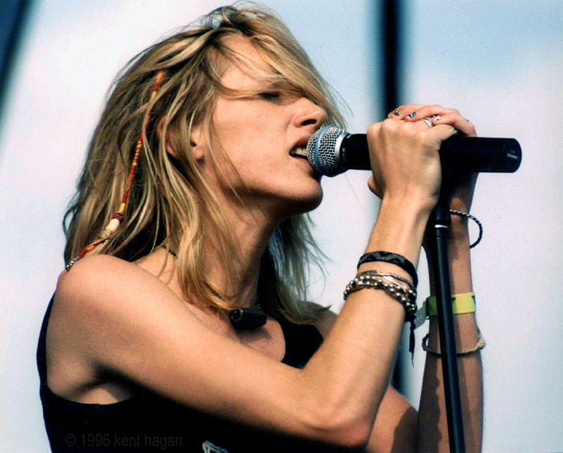 Photograph of Ann Danielewski in 1996 at EdgeFest in Dayton, Ohio.